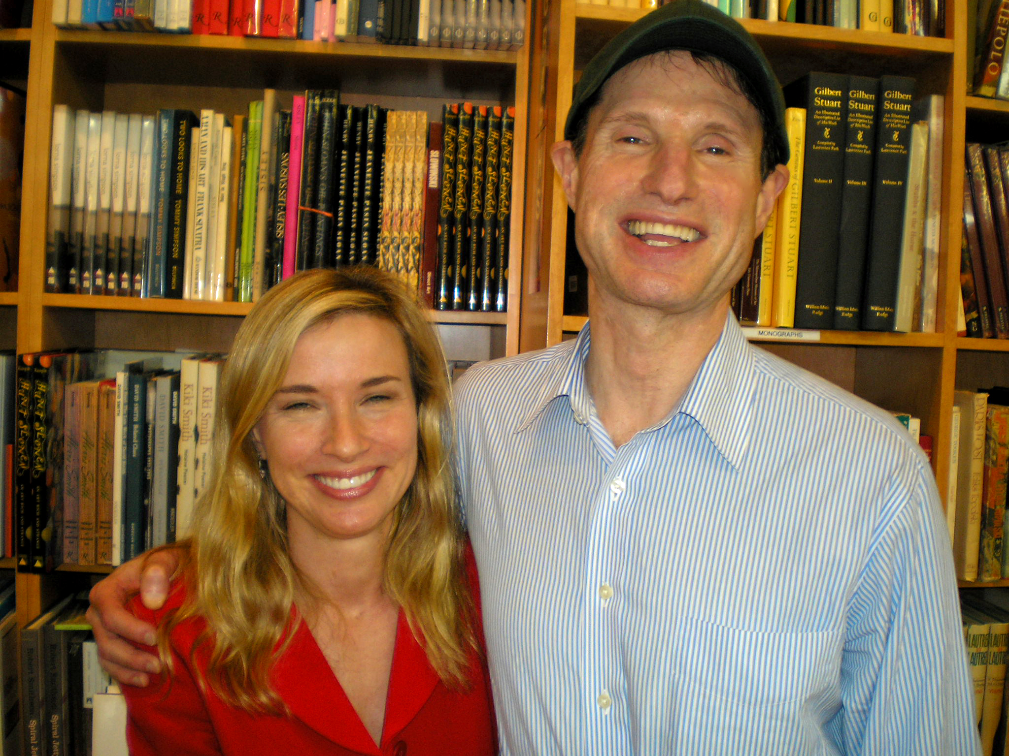 Ron Wyden and Nancy Bass Wyden by David Shankbone